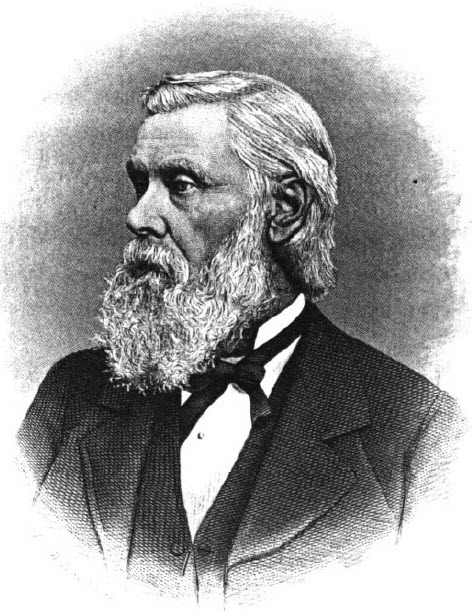 Parley Ide Perrin (born 1812); Taunton Locomotive Works